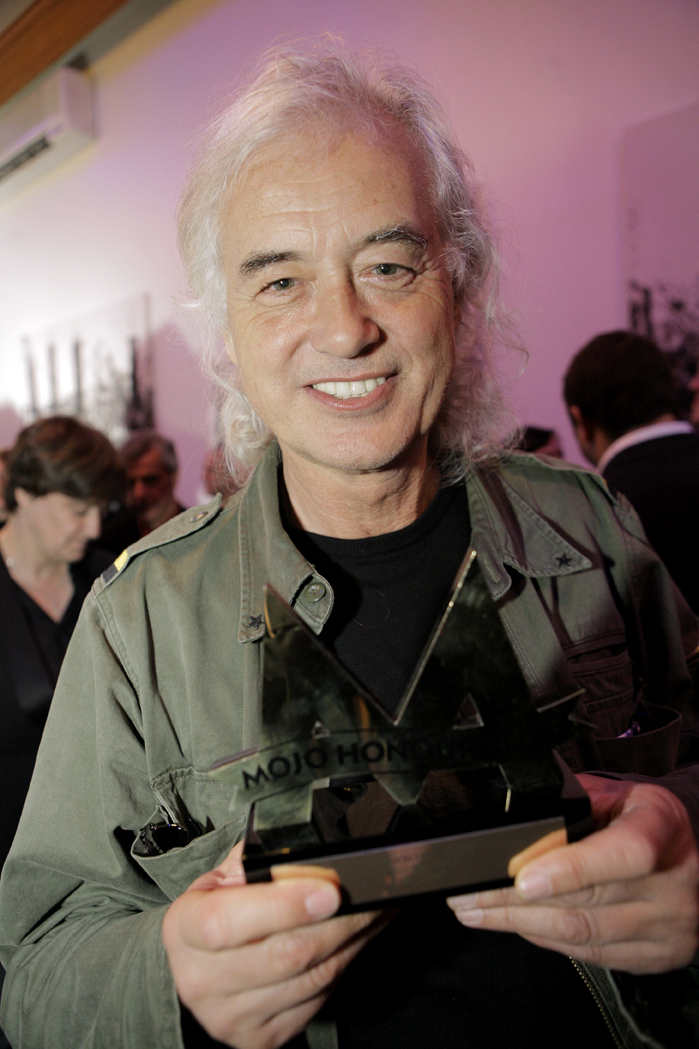 Jimmy Page_Mojo Awards 2008